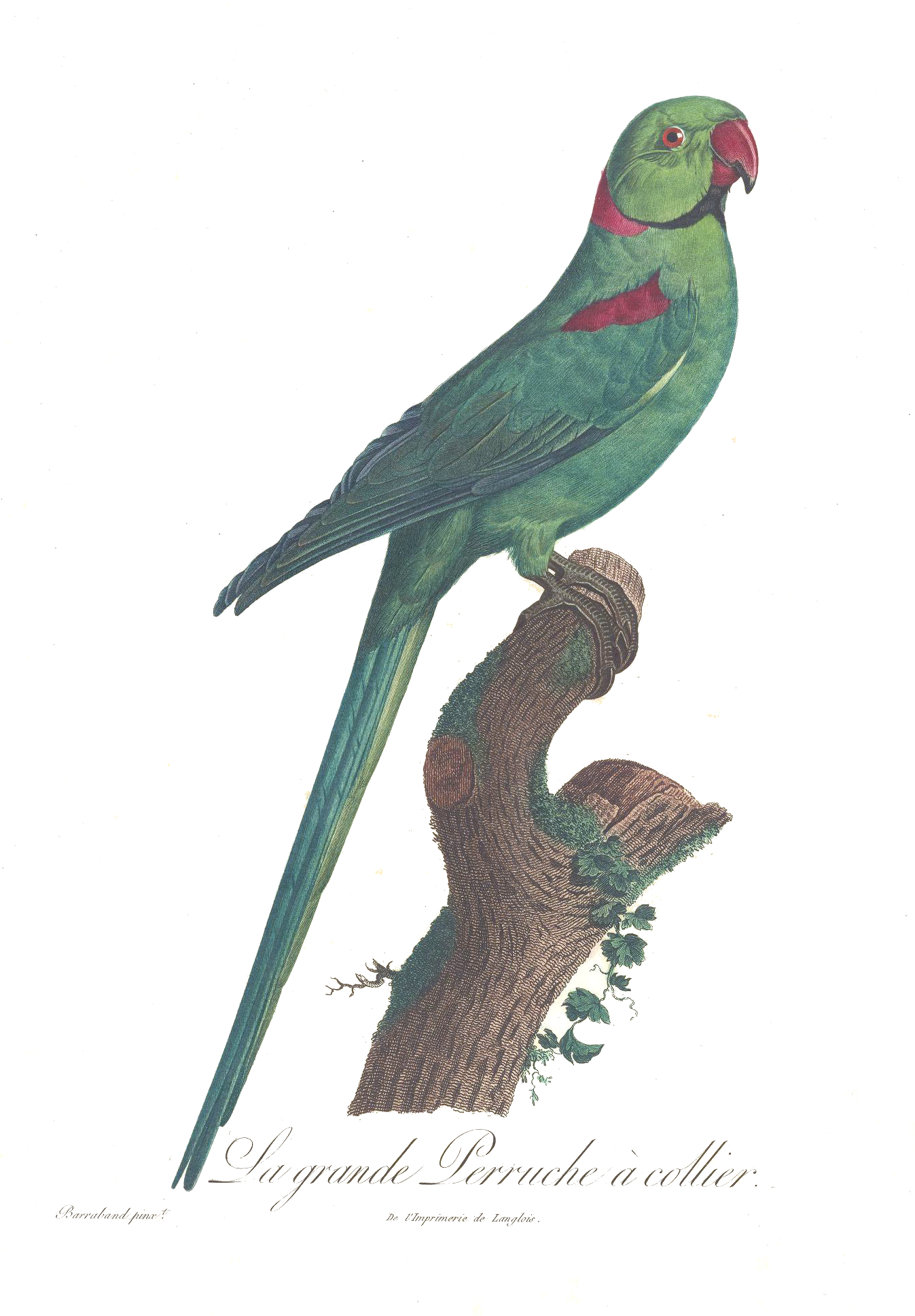 Alexandrine Parakeet or Alexandrian Parrot (Psittacula eupatria). La grande Perruche a collier